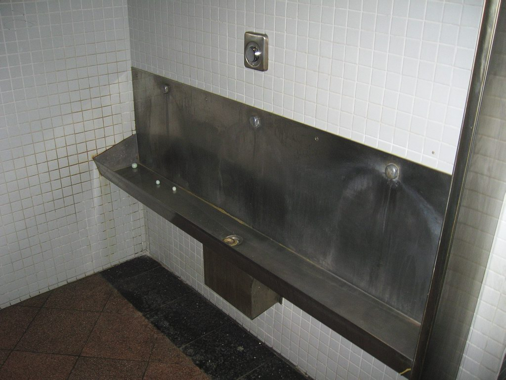 Stainless steel trough-style urinal